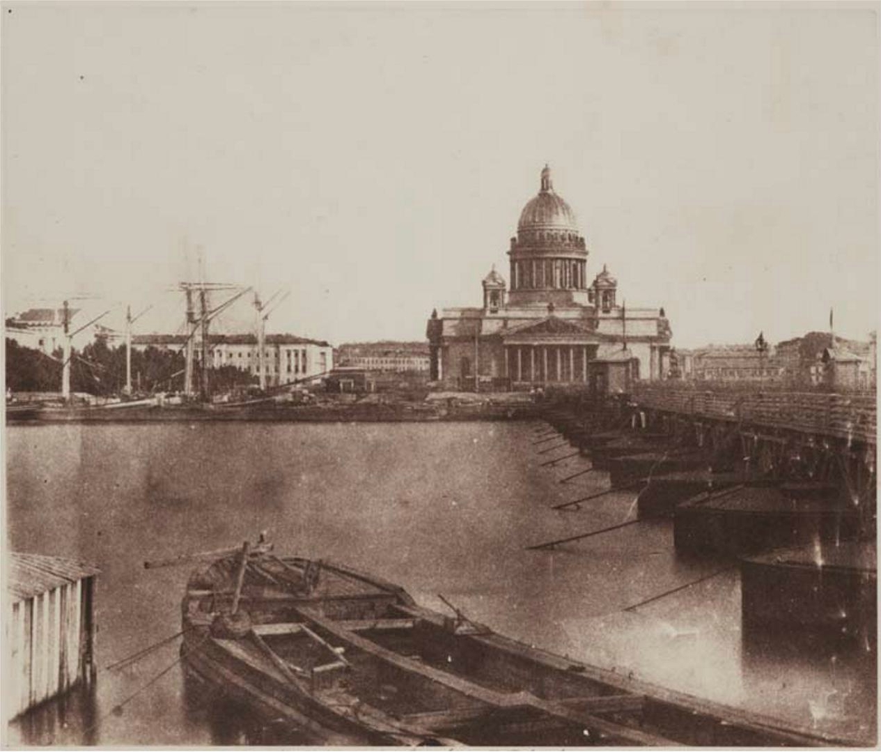 The admiralty & St. Isaac's Church, St. Petersburg Salt print from a waxed paper negative, 31 August - 2 September, 1852 18.1 x 21.4 cm., mounted Title inscribed in pencil by Fenton on the mount.